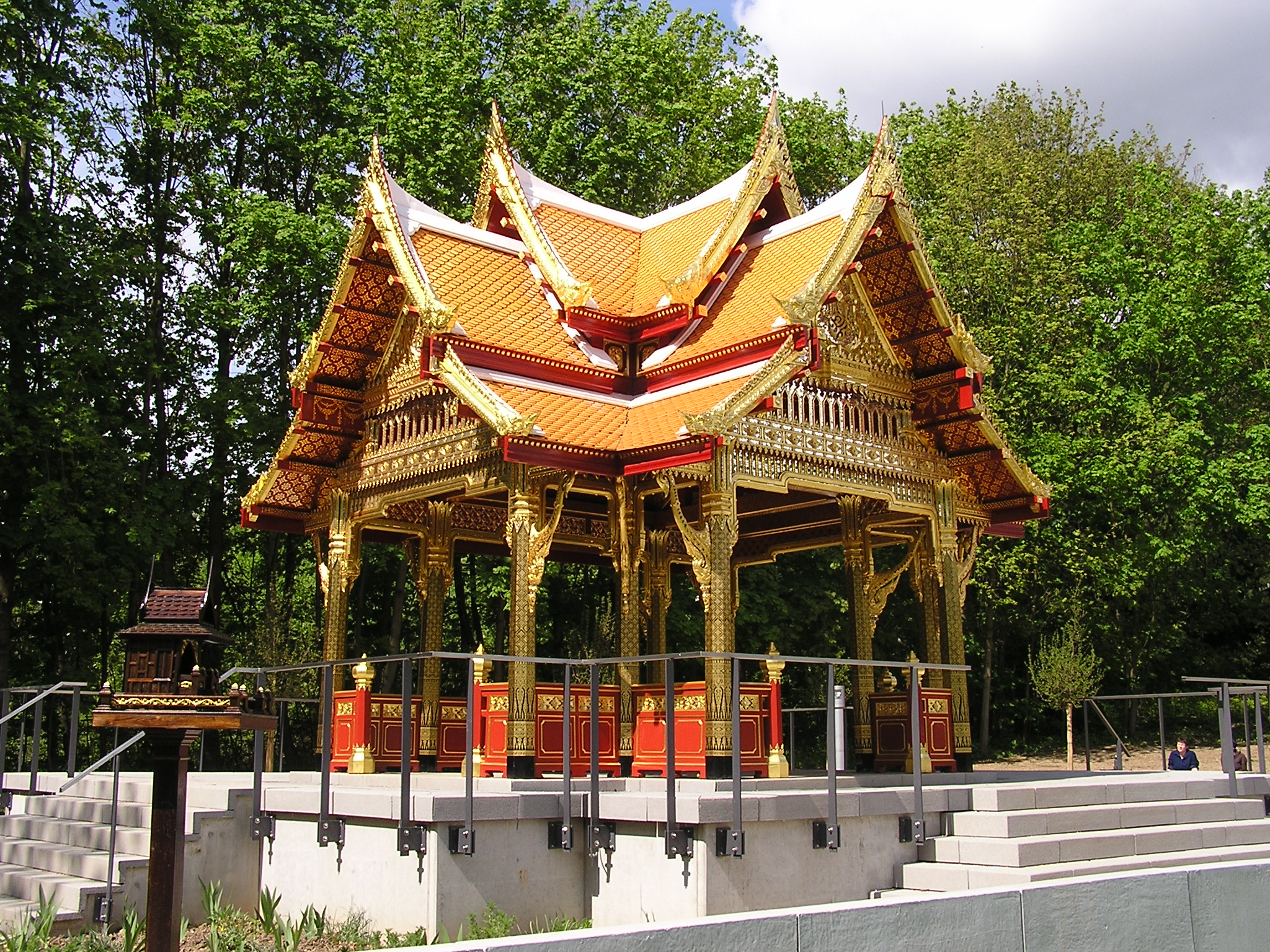 The new Sala-Thai II (pavilion) in the spa gardens Bad Homburg